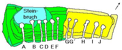 Map of Barnenez megalith mound grave. There is many graves in same mound. Barnenz is one of forst megalite mounds on Brittany, France.